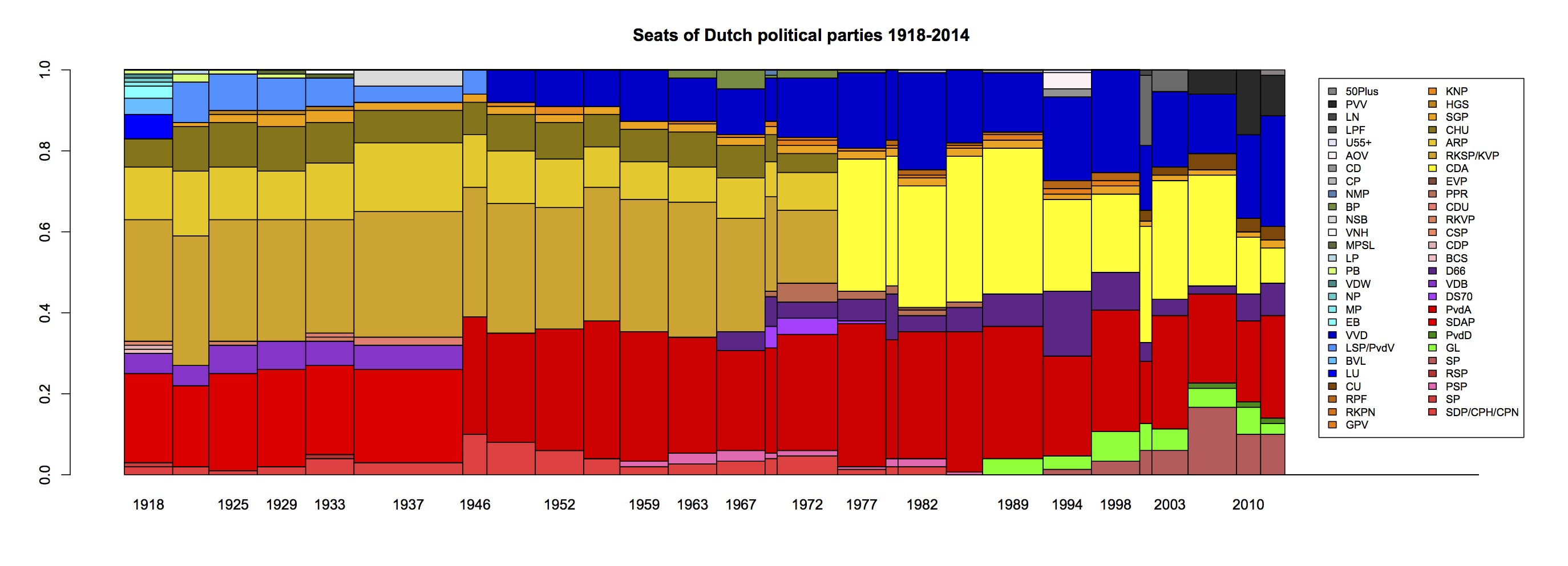 This figure shows the election results in the Netherlands between 1918 and 2012